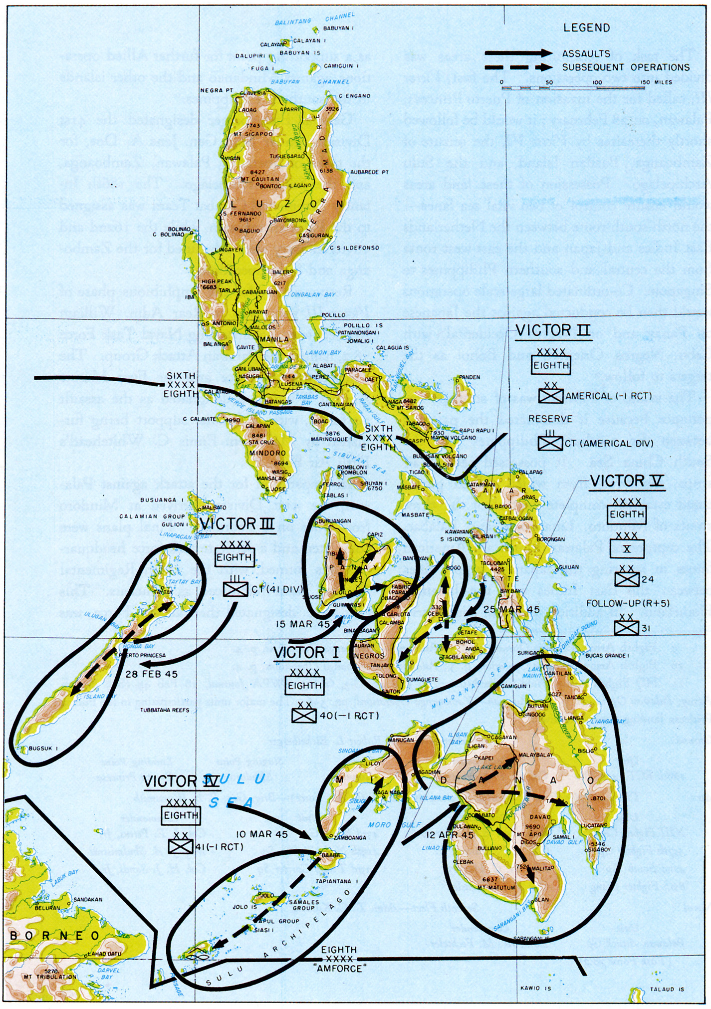 Plan of "Montclair III": Victor Operations, 25 February 1945